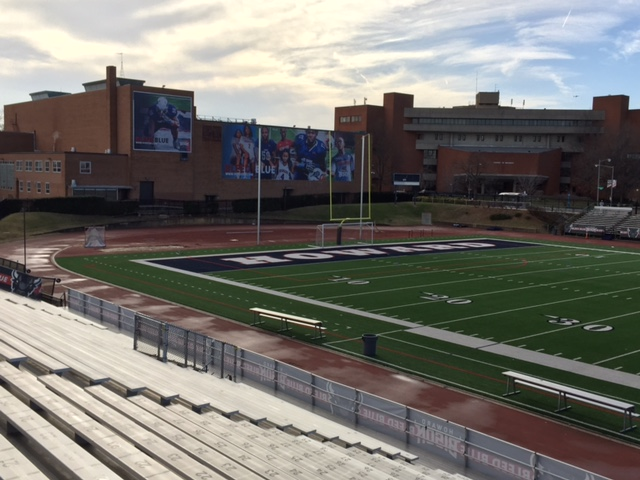 Greene Stadium is one of the on-campus athletic facilities at Howard University. (Howard's School of Business can be seen in the top-right corner of the image).